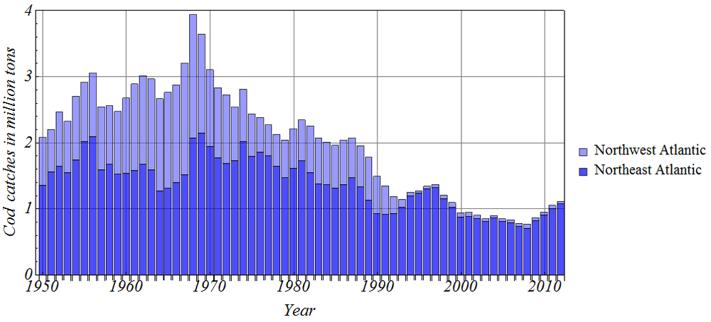 The graph presents cod catches in the Northeast and Northwest Atlantic Ocean in the period 1950-2012. Data provided by FAO.